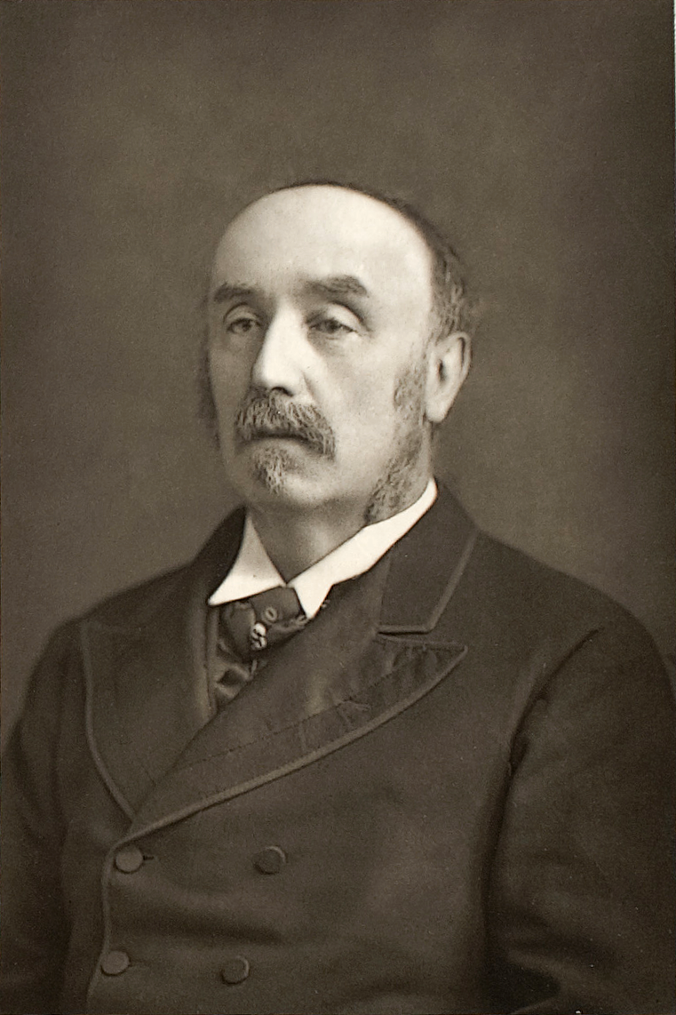 Woodburytype of Sir Lewis Morris (23 January 1833 – 12 November 1907)